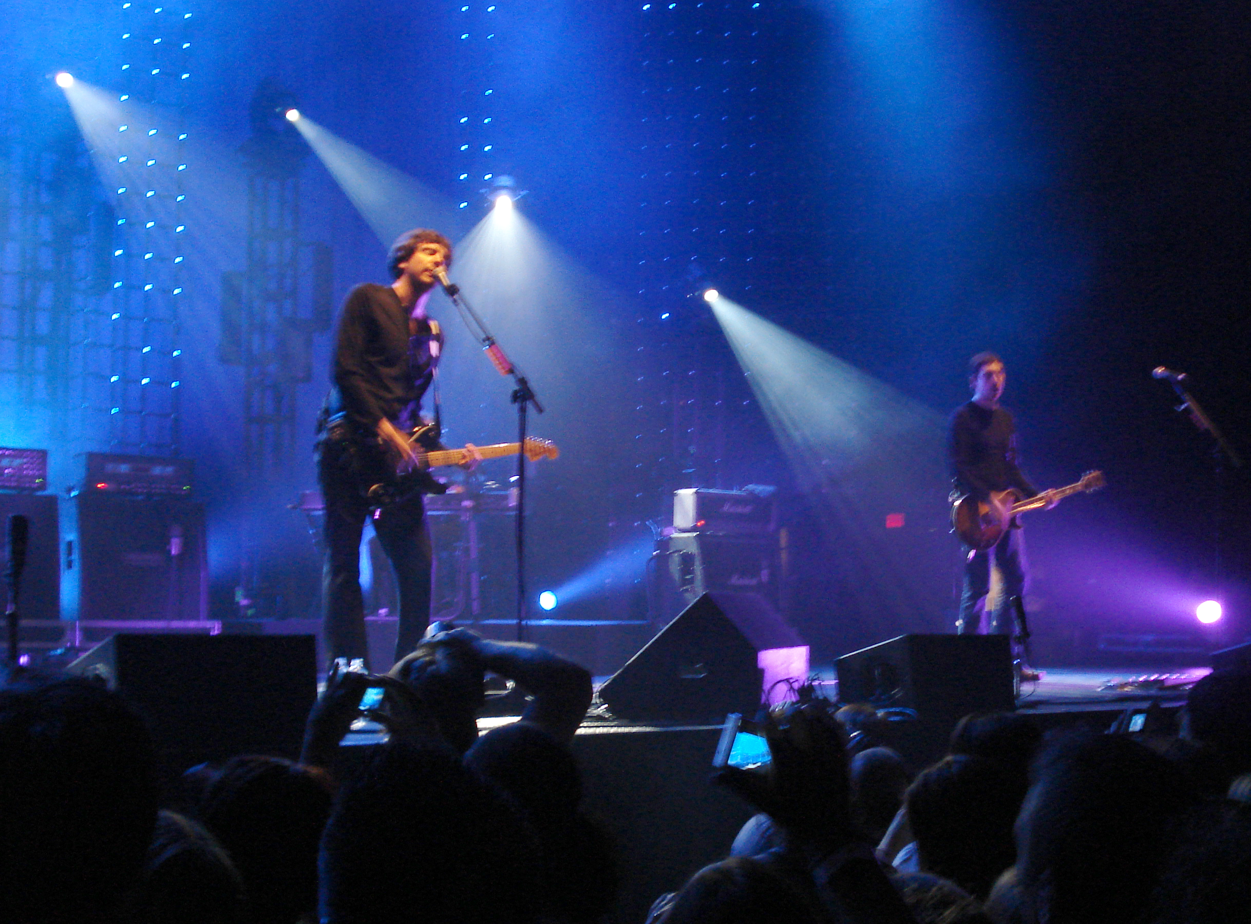 Snow Patrol performing in Bank United Center at the University of Miami in Coral Gables, Florida on 19 March 2007. Photo taken by Wilhelm Gerdts.